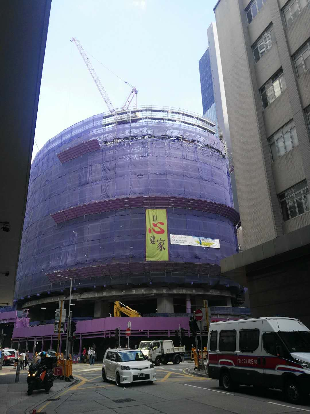 2020 July Millennium City 8 under construction